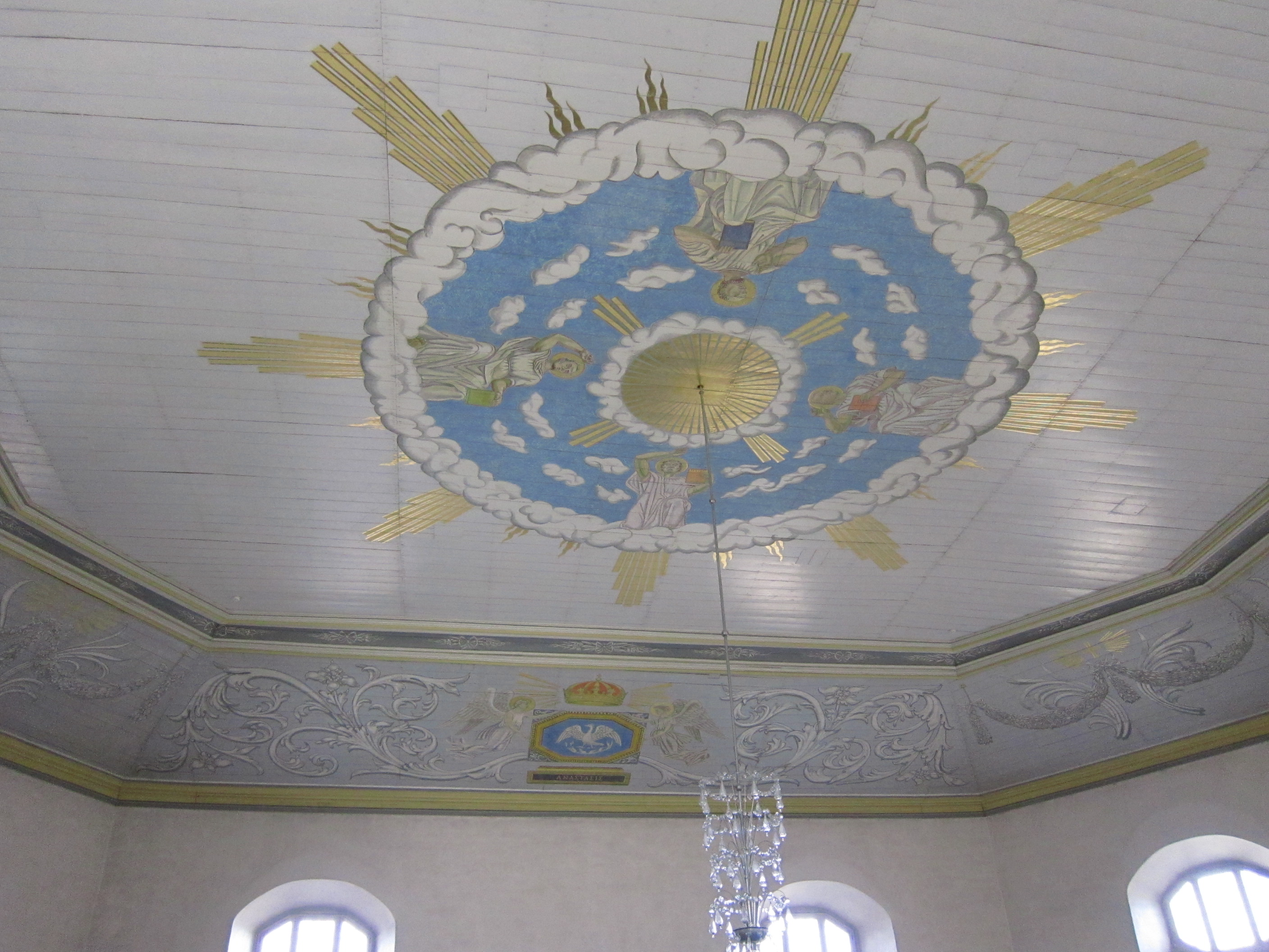 Vang church at Ridabu (Hamar), ceiling, decorated, no supporting columns